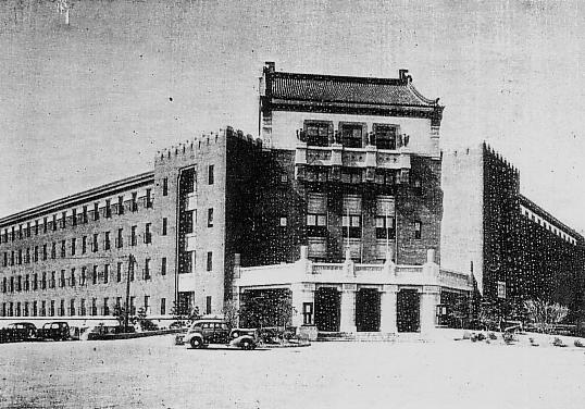 Manchukuo Police Ministry Building